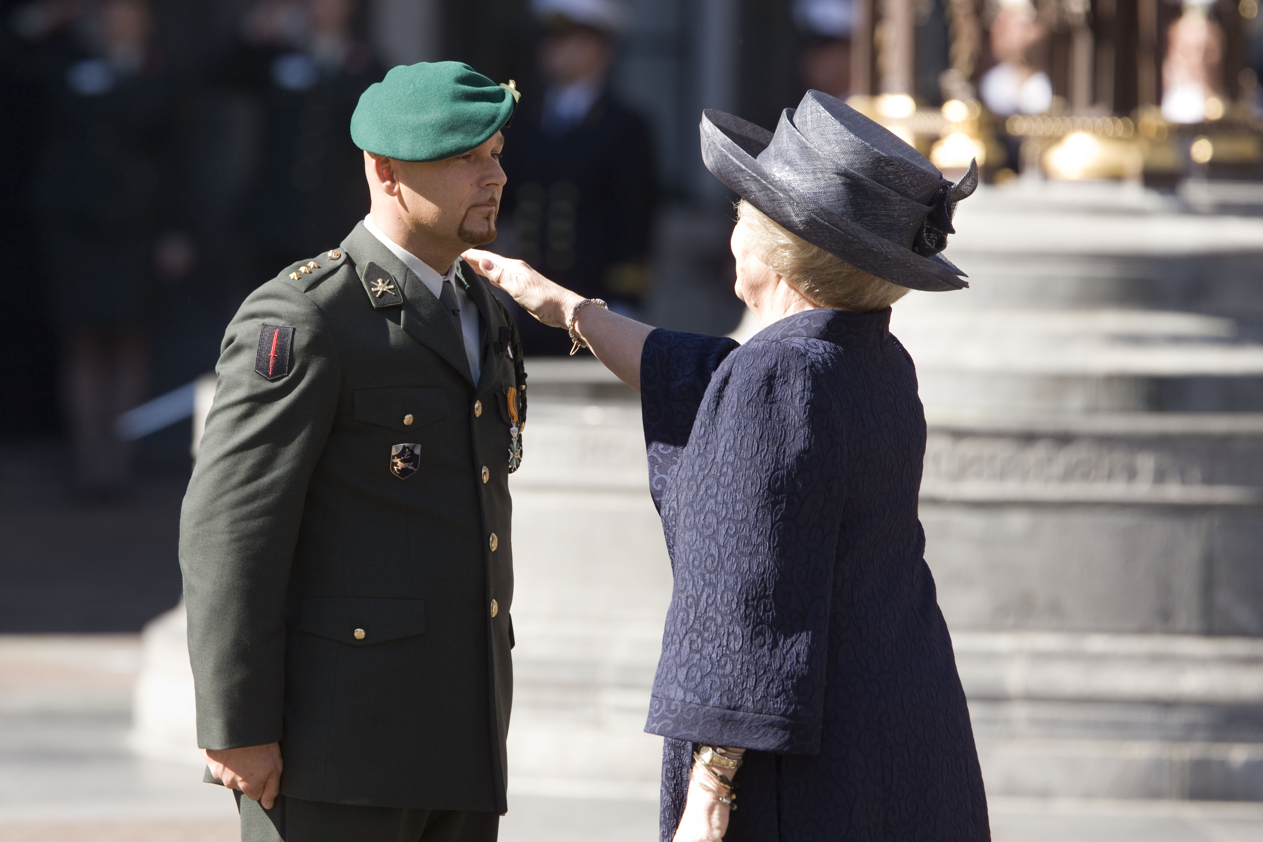 Marco Kroon being dubbed to knight by Queen Beatrix of the Netherlands